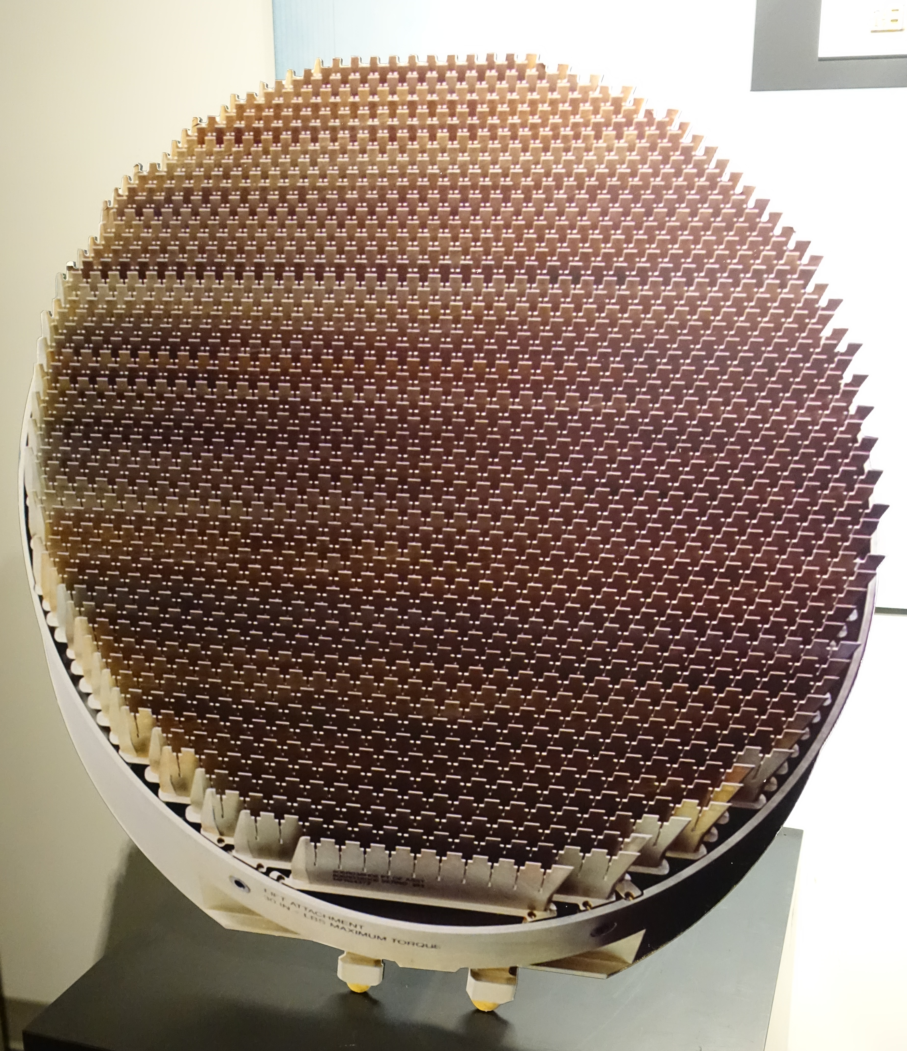 Exhibit in the National Electronics Museum, 1745 West Nursery Road, Linthicum, Maryland, USA. All items in this museum are unclassified. The museum permitted photography without restriction.